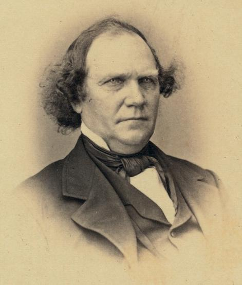 Congressman James K. Moorhead from Pennsylvania